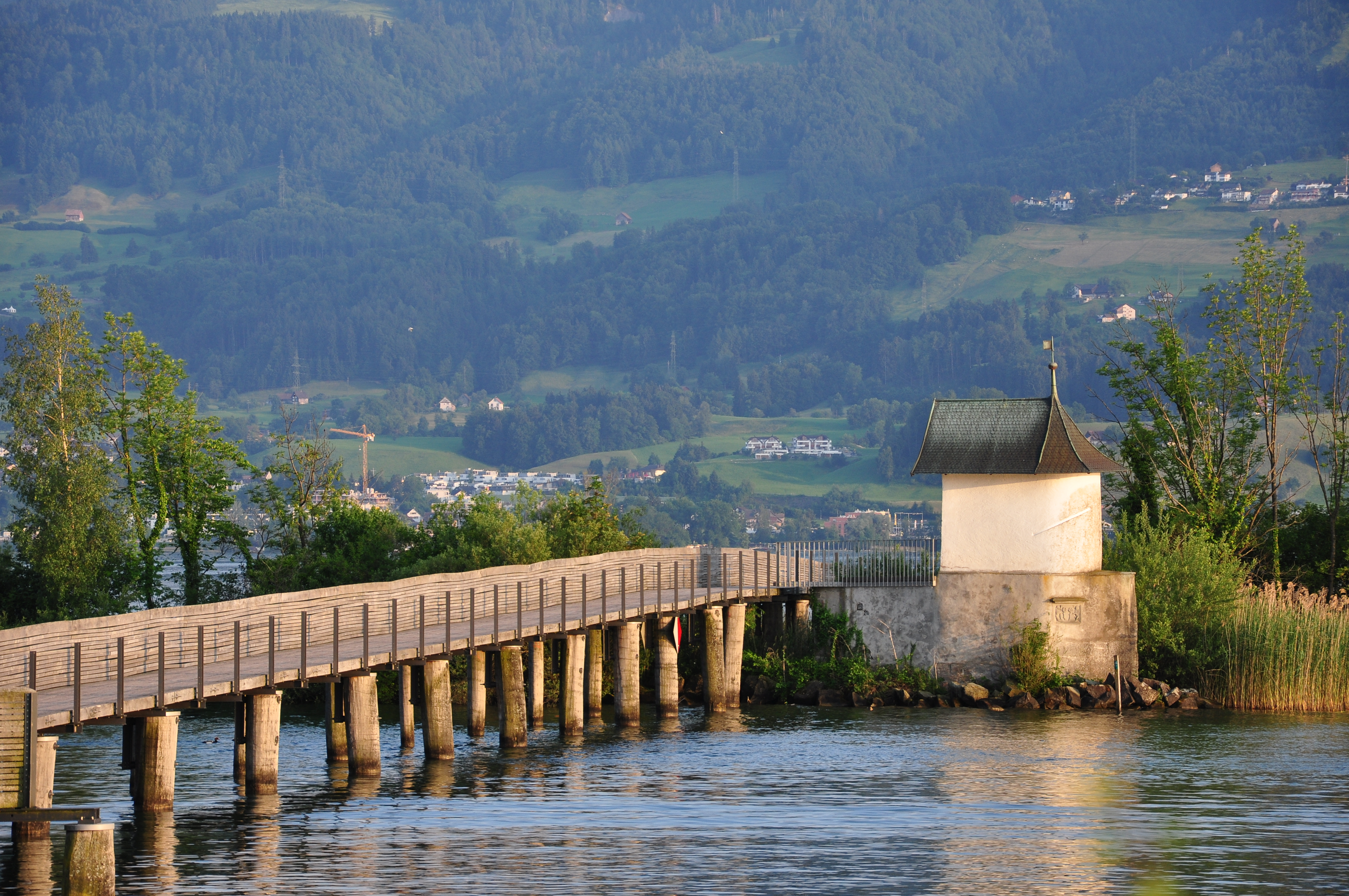 Rapperswil (SG) : Pilgersteg (Pilgrim's bridge) Rapperswil-Hurden, crossing Obersee (upper Lake Zurich), and «Heilig Hüsli» chapel.